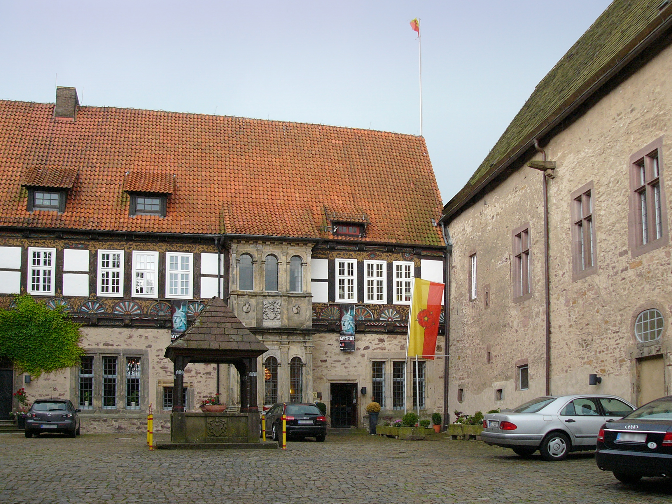 Blomberg castle, Germany, view to the courtyard